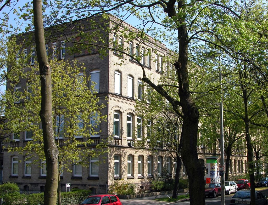 Brunswick, Germany: Former Voigtländer plant (as seen from the southwest).